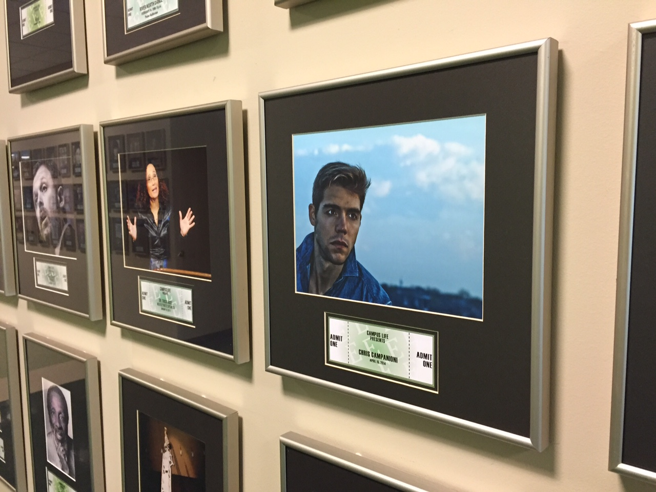 An image taken at Eastern Michigan University which shows Chris Campanioni's plaque in the hall of distinguished speakers and visiting authors.